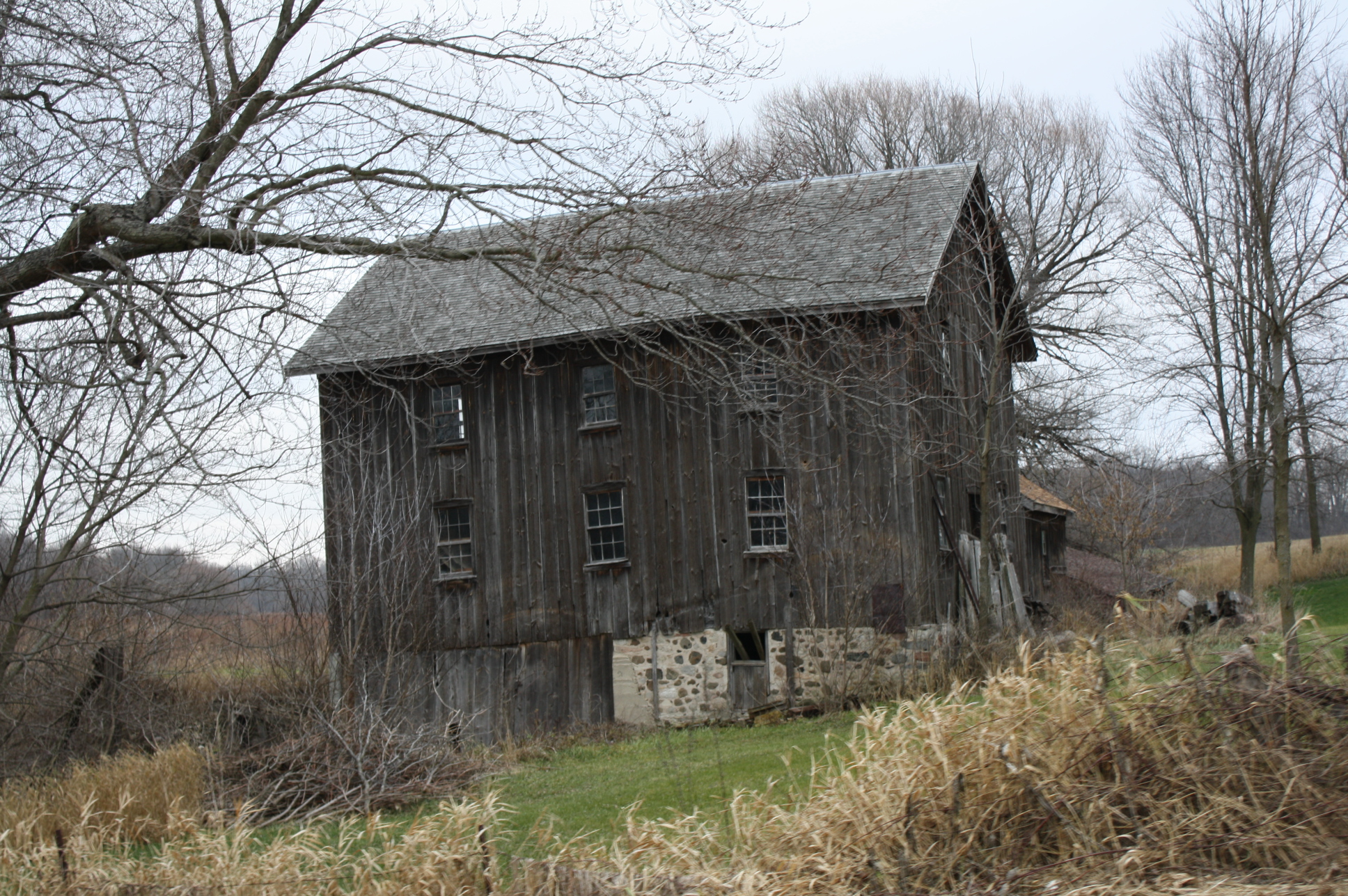 The Gooseville Mill/Grist Mill in rural Sheboygan County, Wisconsin. It is listed on the National Register of Historic Places.